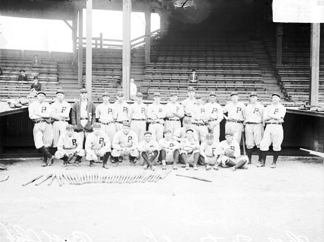 From the Library of Congress website, cropped and color edited